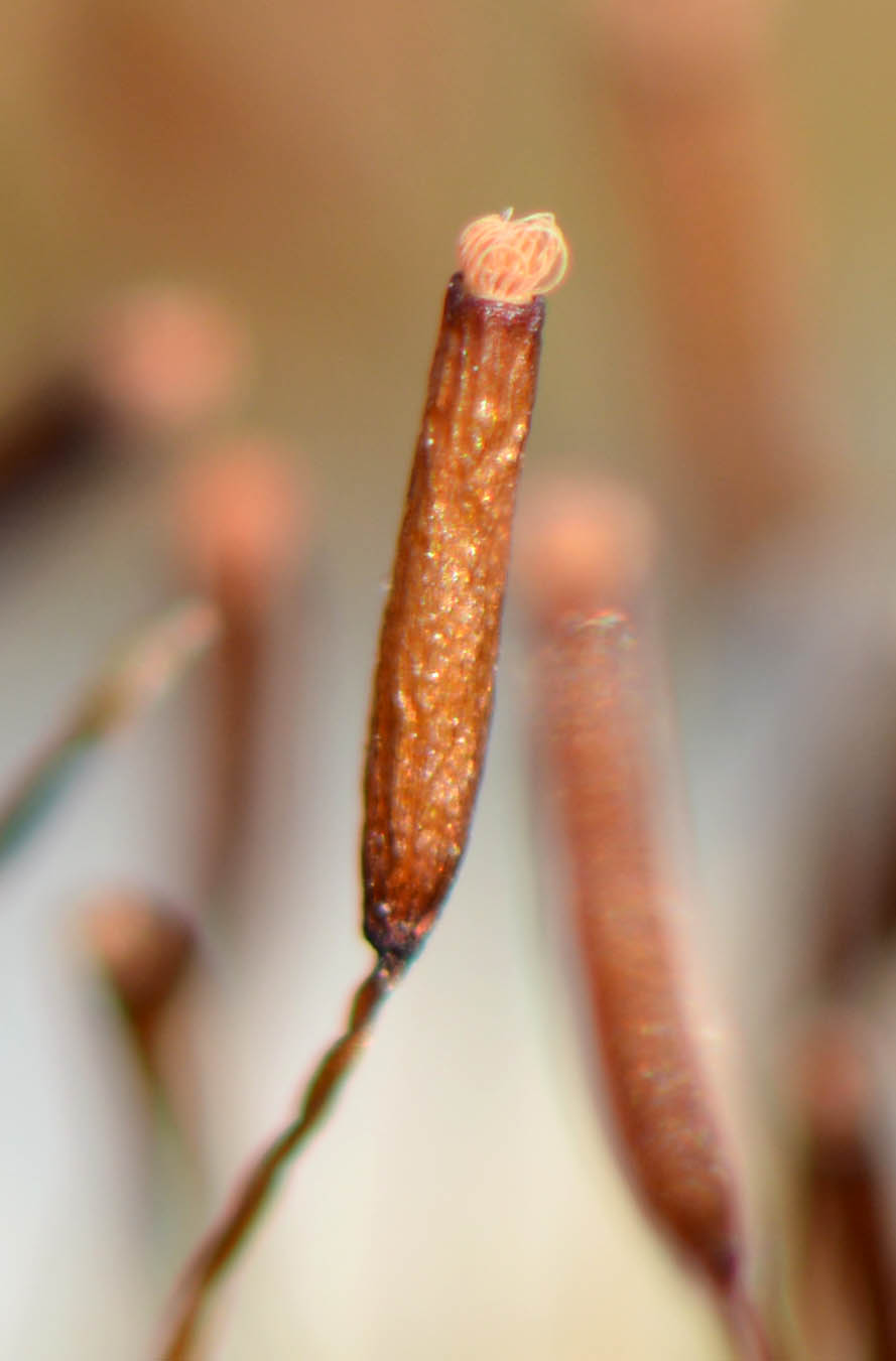 Peristome of a capsule of sporophytes of a bryophyte observed on a wall of the Lille citadel (North of France) 2016-03-11, on a small green ecological wall consisting of gabions filled with limestone and clay. The moss species is very likely Tortula muralis